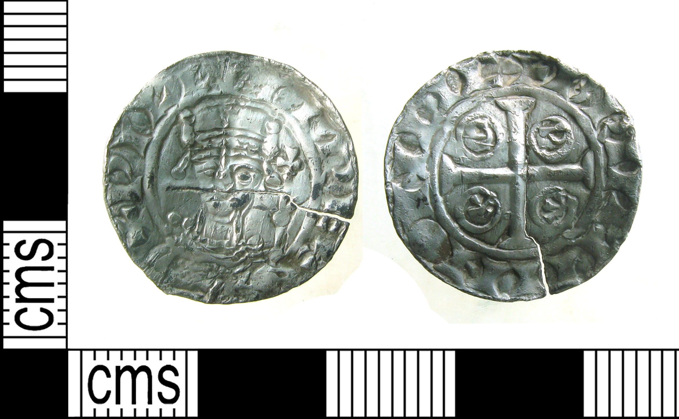 An Early Medieval penny of William I (the Conqueror, 1066-87), PAXS type (1083-6). Measures 19.69mm in diameter, weighs 1.19g and has a die axis of 3. The coin is complete but with a fracture from one side almost to the other. Obverse: Bust facing crowned and diademed; to right, a sceptre +PILLELM REX Reverse: Cross pattee; in each angle an annulet containing one letter of the word PAXS +BRVMIIN ON CIC (the II might be an A but it is where the coin has cracked) Mint: Chichester, Moneyer: Brunman Reference: North 848, crown 1 John Naylor, National Finds Adviser, comments: 'This seems to be the first coin minted at Chichester for William I that the PAS has recorded, although EMC/SCBI have 18 coins of this type listed but none of these are provenanced'.